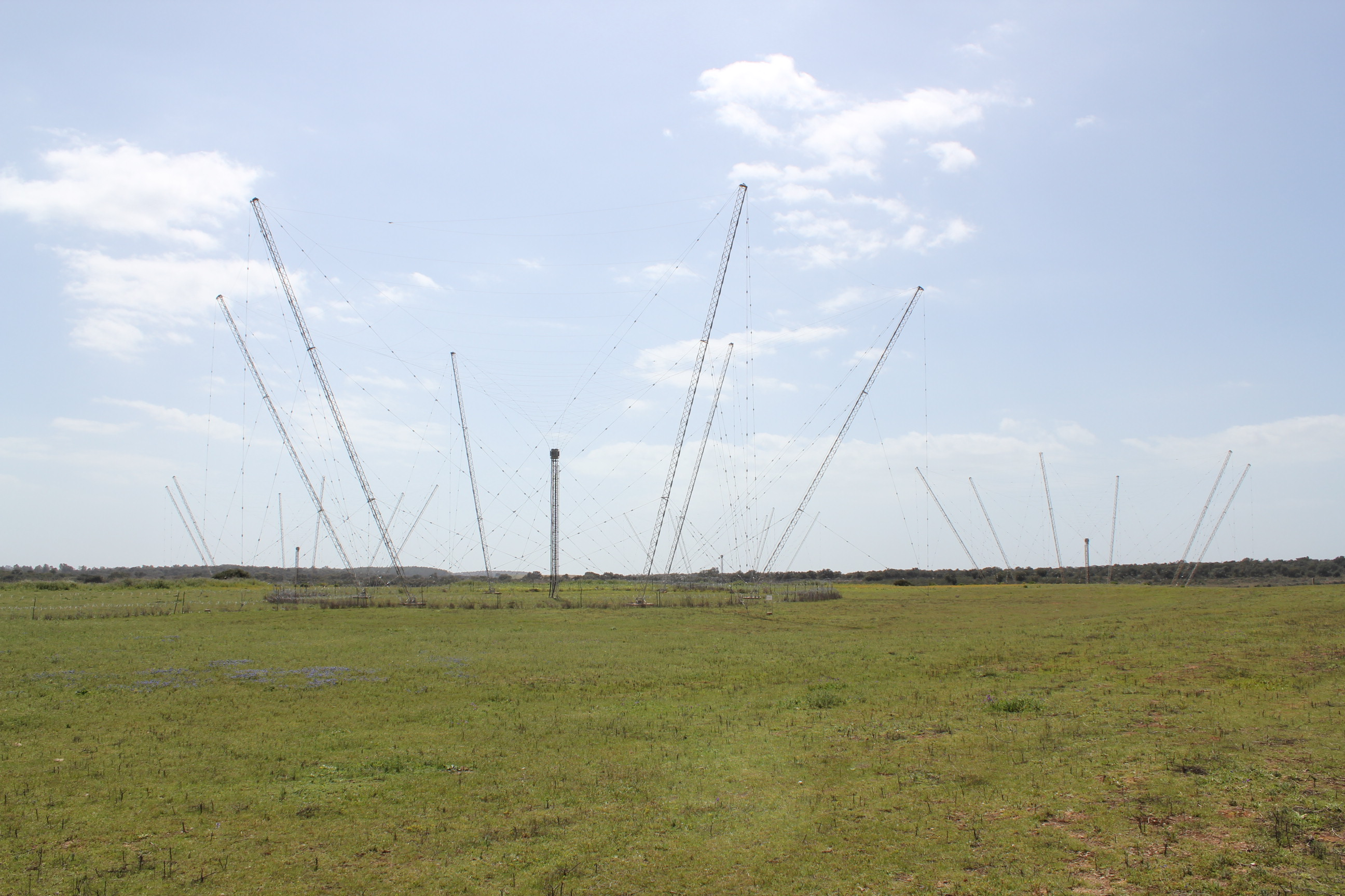 High Frequency Dual Mode Antennas at NRTF Niscemi